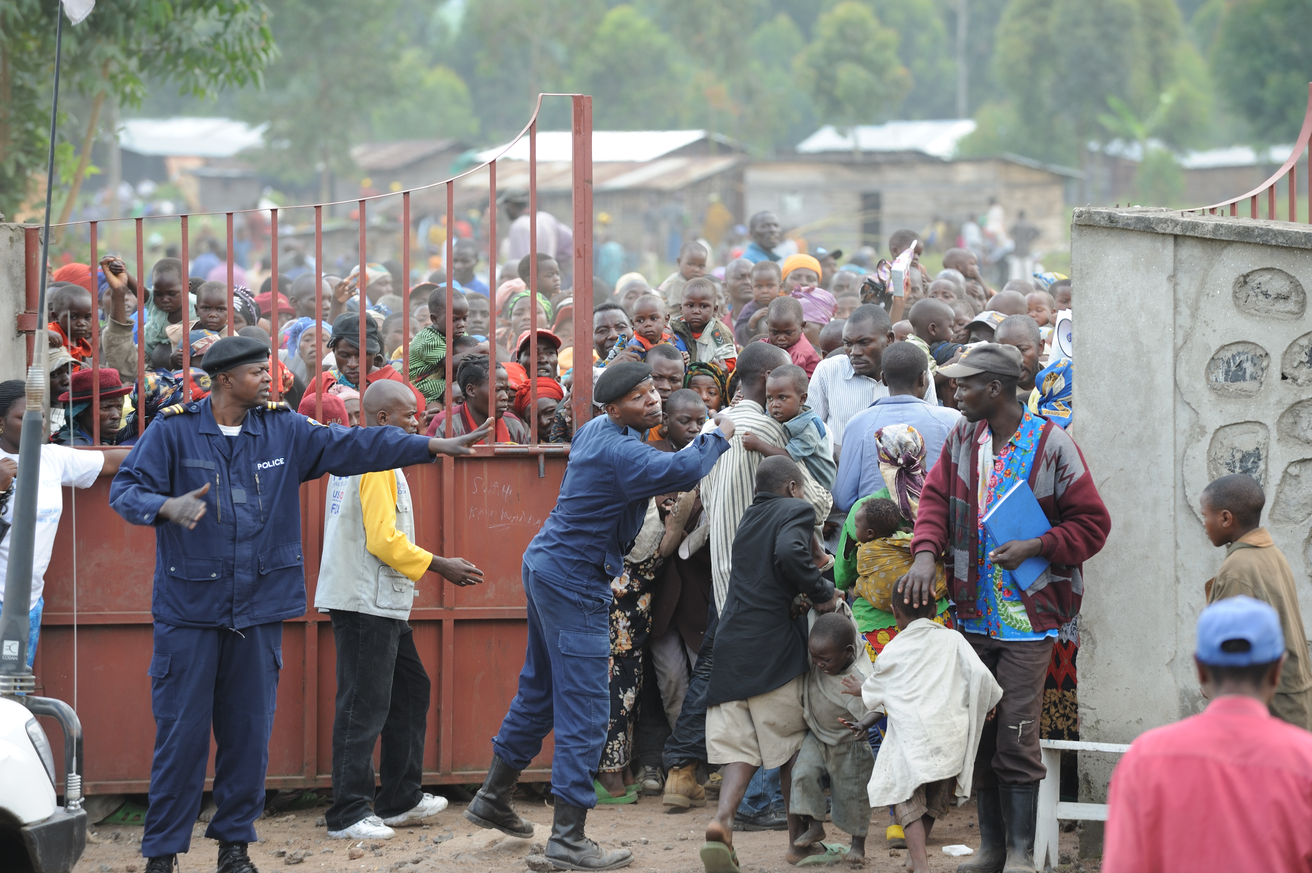 Distribution of food in Kibati-camp, Goma, Congo. UNICEF was amongst the first to get of Goma and start distribution. The amount of people needing aid and the duration since they last got food made the distribution difficult. Unicef distributed high energy biscuits and medical supplies for the centre which had been looted by government soldiers.